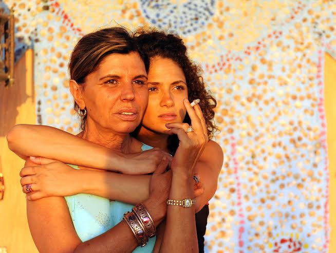 מיטל גל-סויסה בסרטה של חנה אזולאי הספרי "אנשים כתומים", 2012